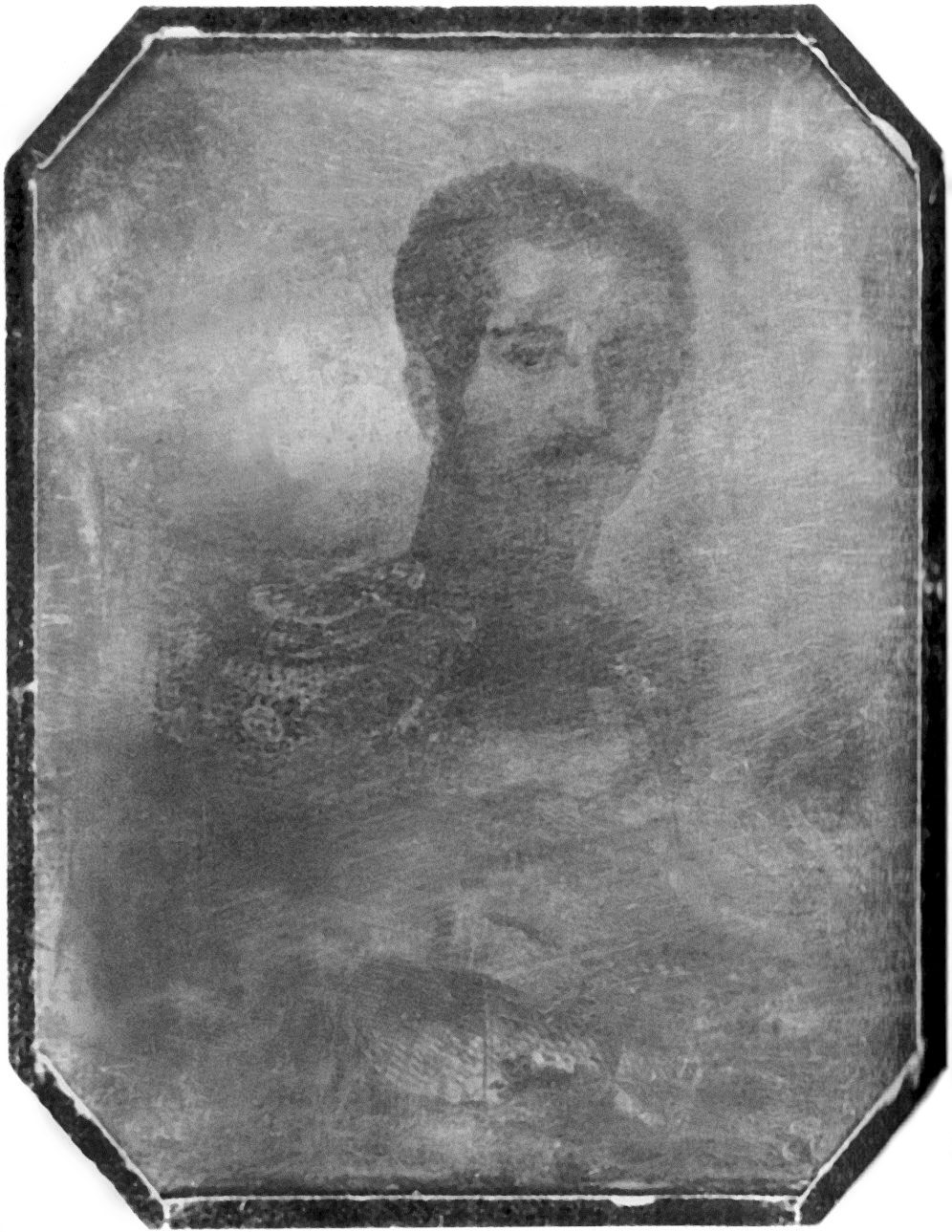 First photograph ever of a Swedish monarch. It's of Oscar I of Sweden, taken in 1844 by an unknown photographer. Scanned from Herman Lindqvist - Från istid till framtid, page 556.